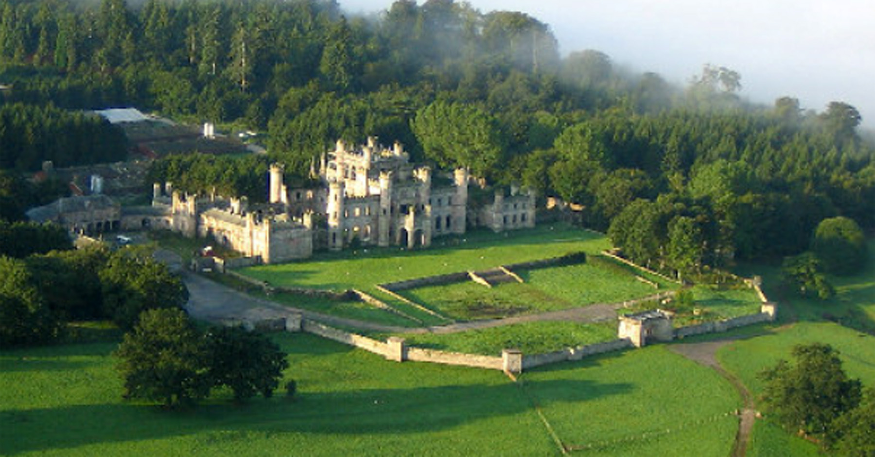 Lowther Castle, Cumbria, England